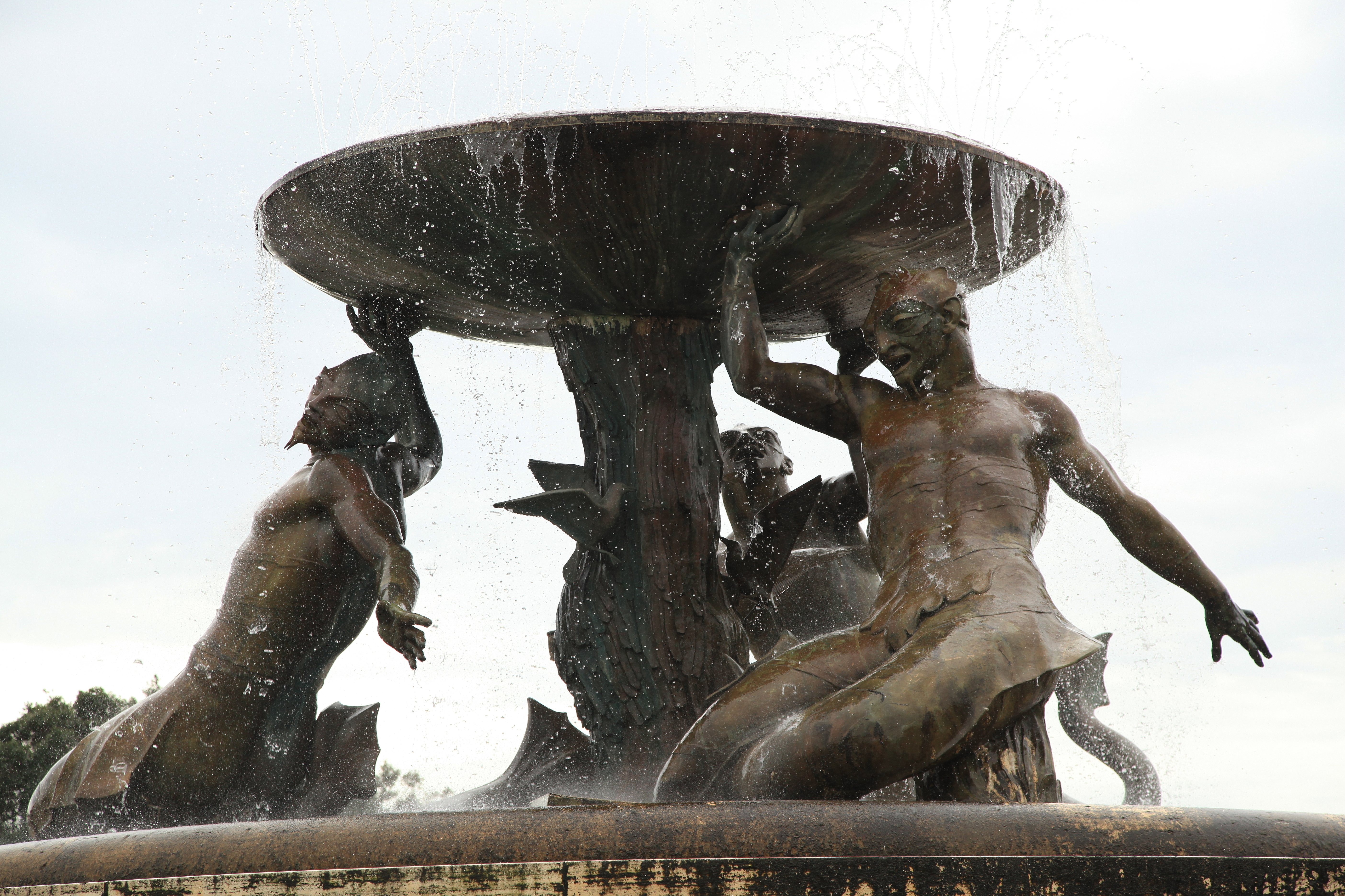 Triton Fountain at Vjal Nelson in Valletta, Malta